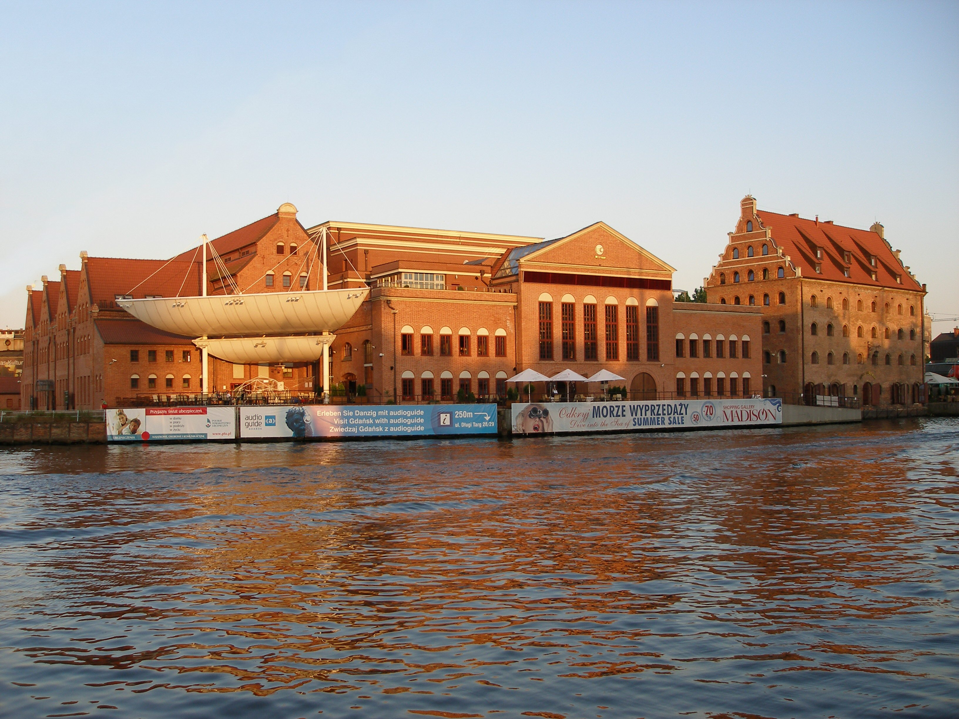 Baltic Philharmonic in Gdańsk.